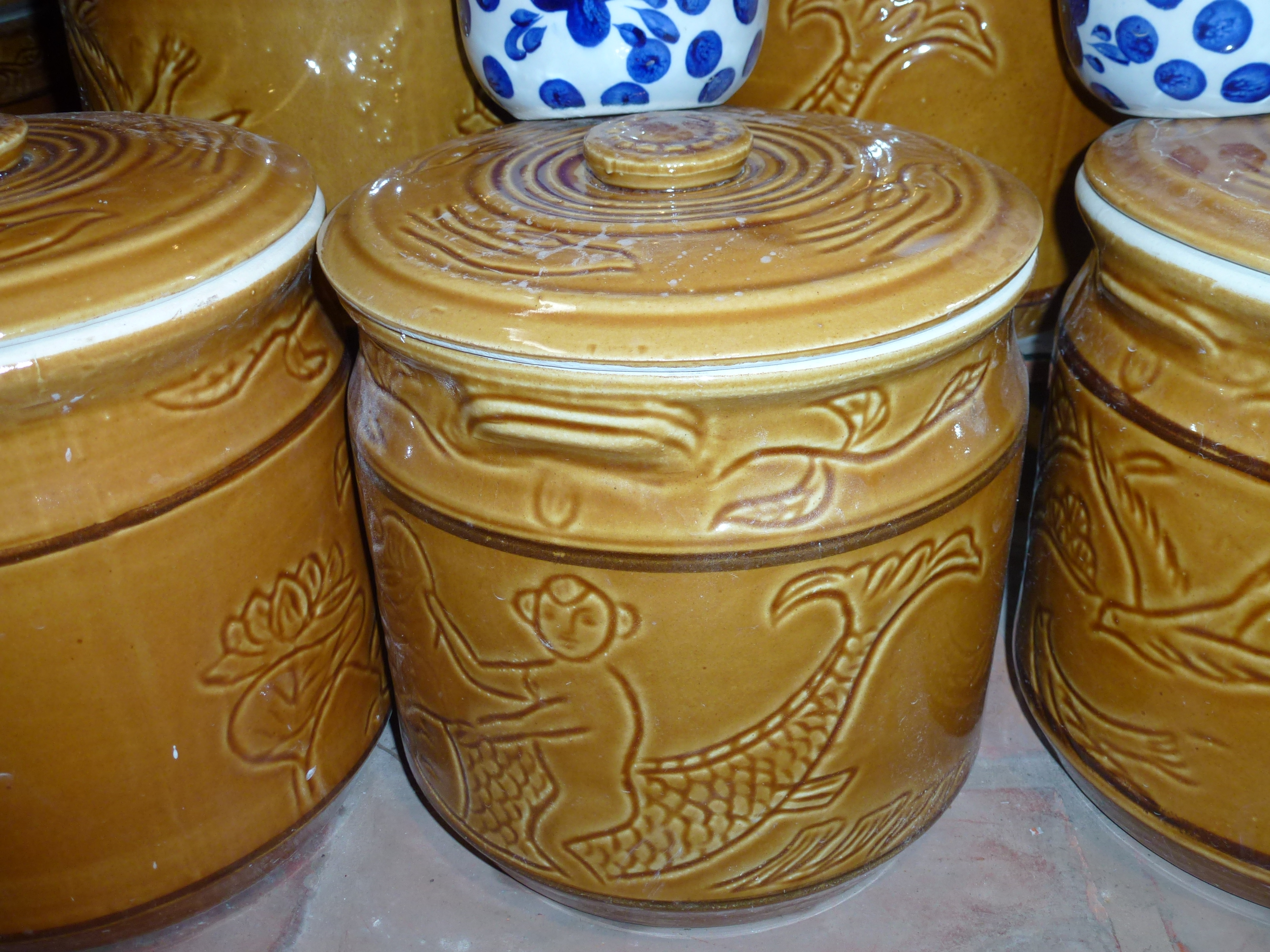 Vase by Bat Trang ceramic for pickling